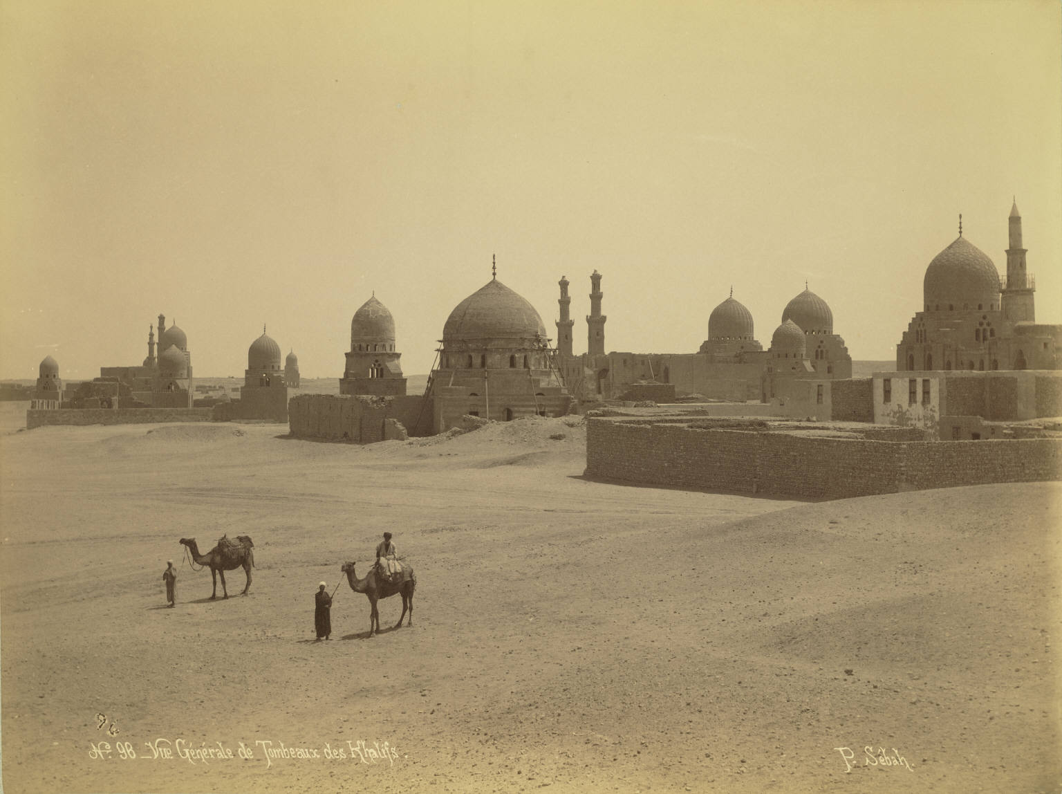 Tombs and funerary complexes in the Northern Cemetery, Cairo, taken from the 19th century collection of architectural images photographed by A. D. White